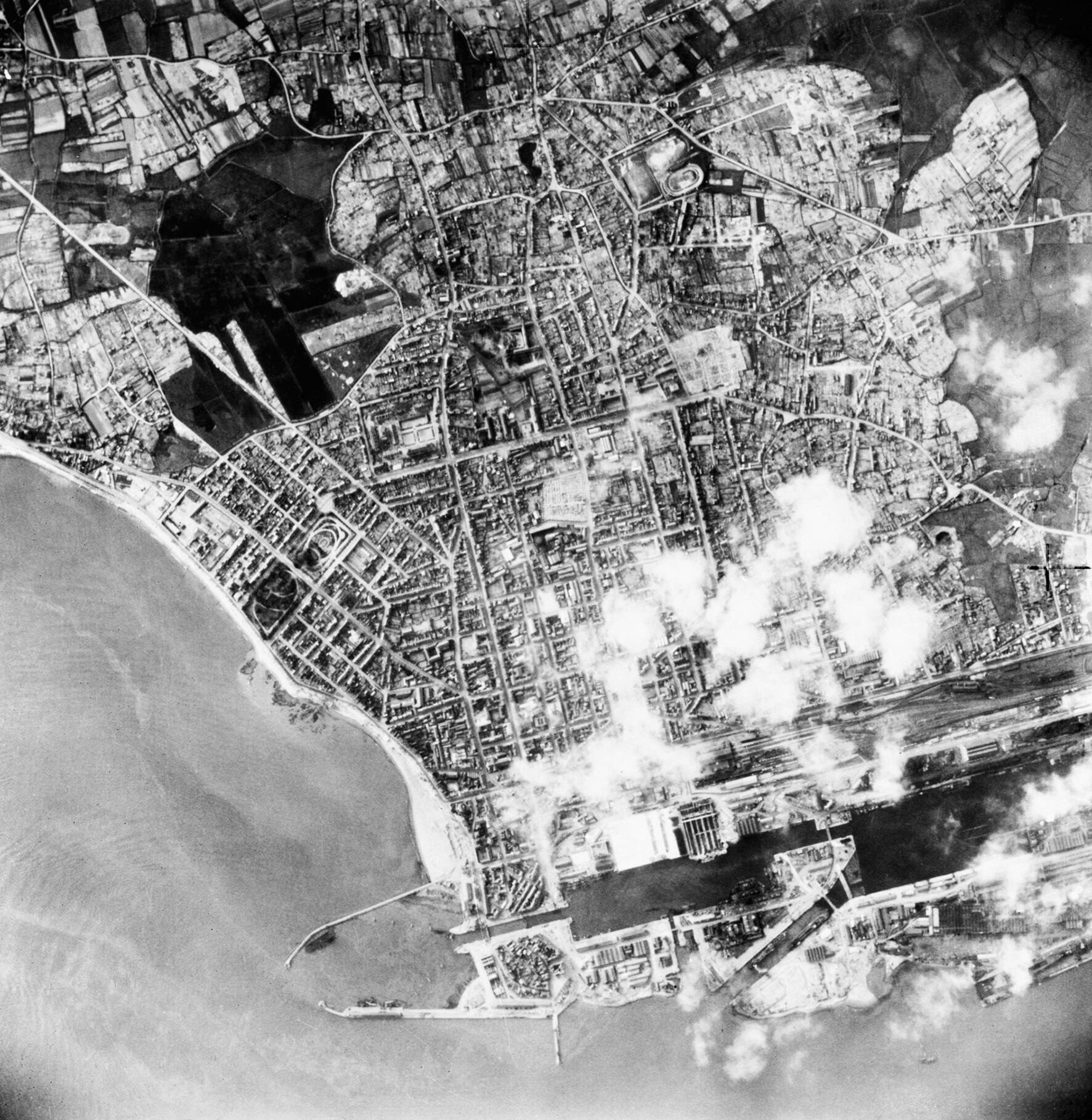 Operation Chariot- the Raid on St Nazaire, 27/28 March 1942 Aftermath: Aerial reconnaissance photograph taken after the raid showing damage to the Normandie Dock as well as dockyard installations.